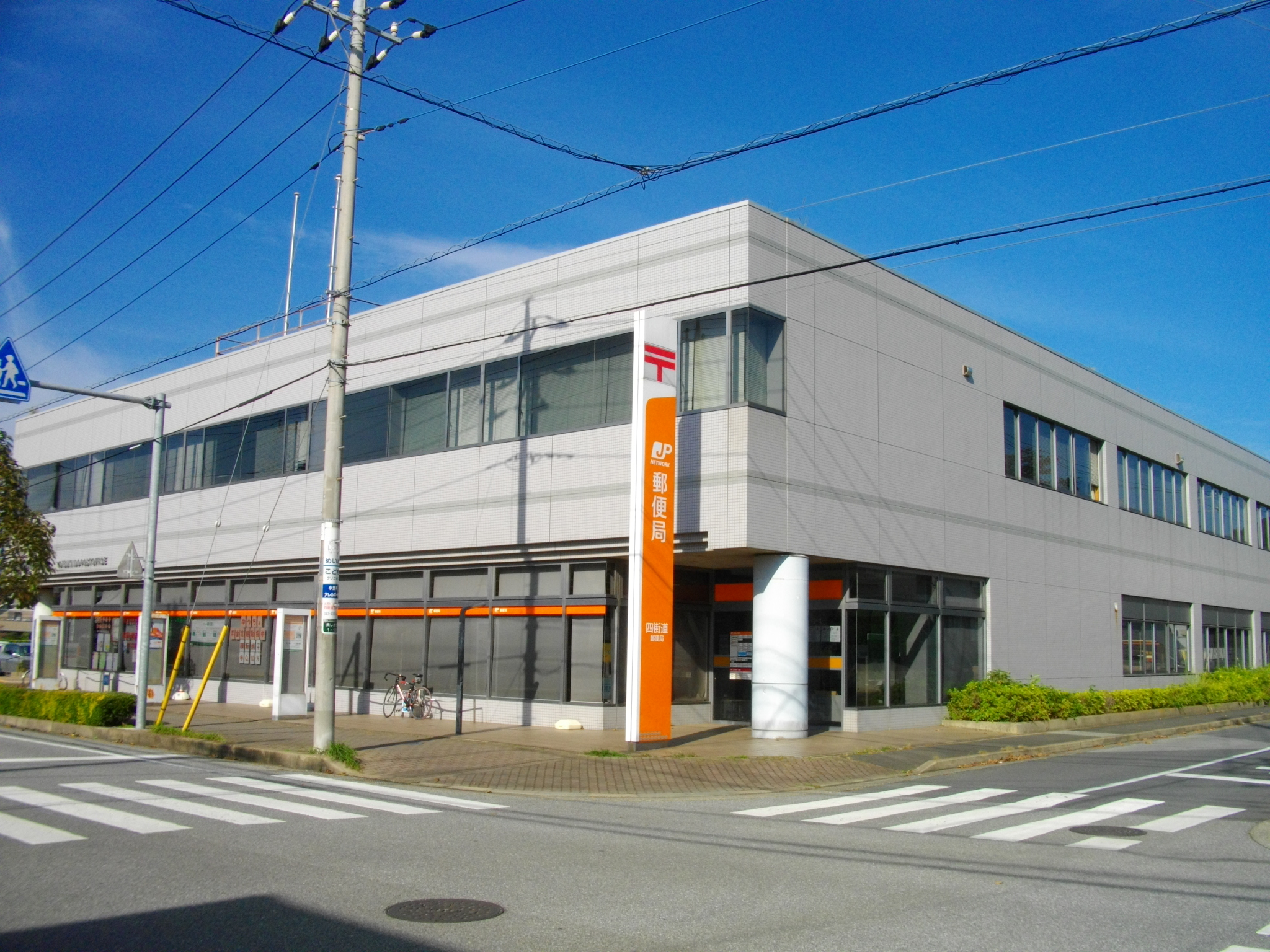 Yotsukaido Post Office